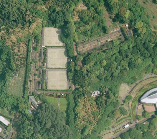 The Geographical Survey Institute took the aerial photograph in Shizuoka City, Shizuoka Prefecture on May 1, 2009.